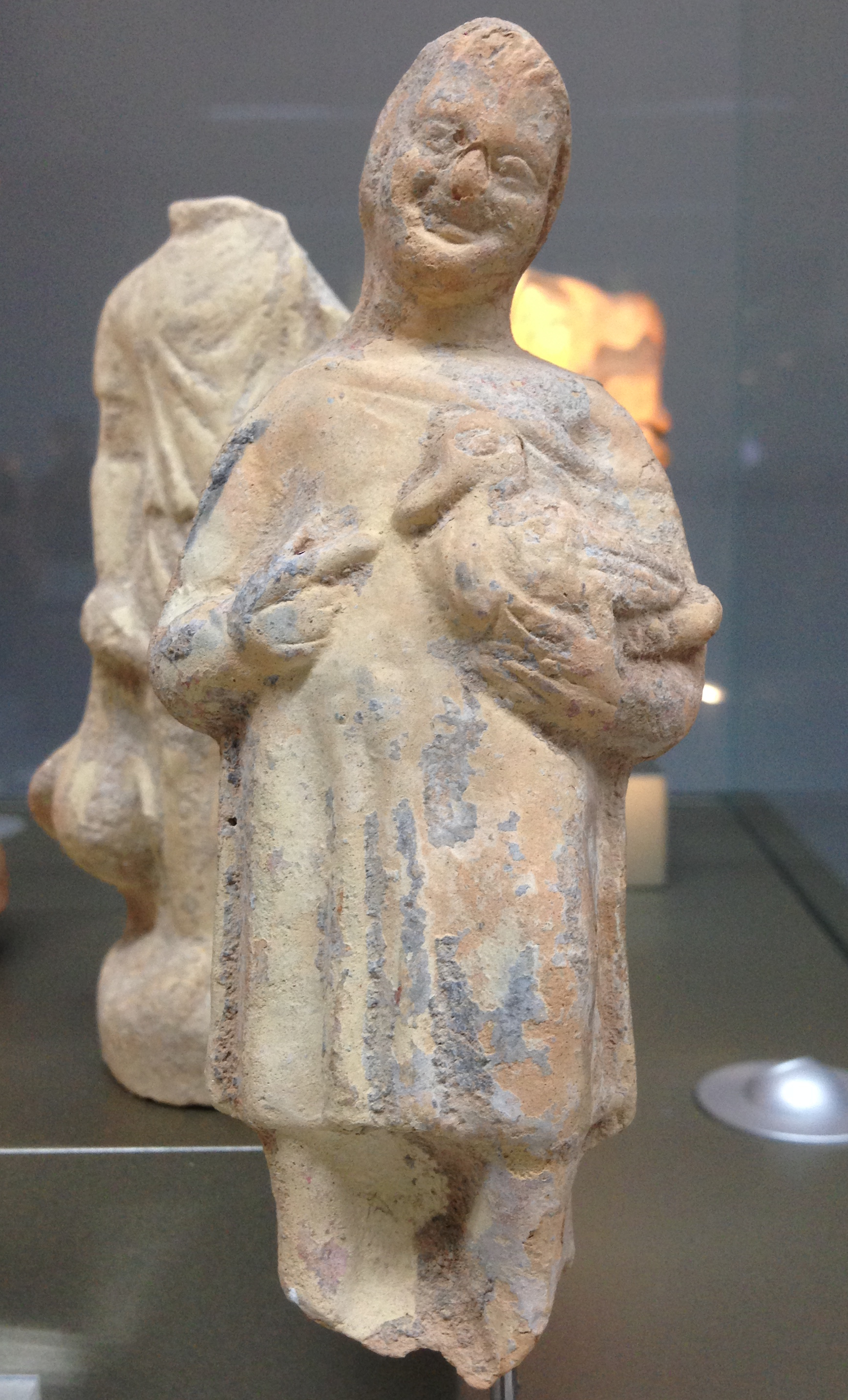 This terracotta figurine represents the bearer of an offering (a duck). Uncovered in Kharayeb (Tyre area) and dated to the Hellenistic period (332-64 BCE). From the collection of the National Museum of Beirut, Lebanon, and on display at the International Airport of Beirut.